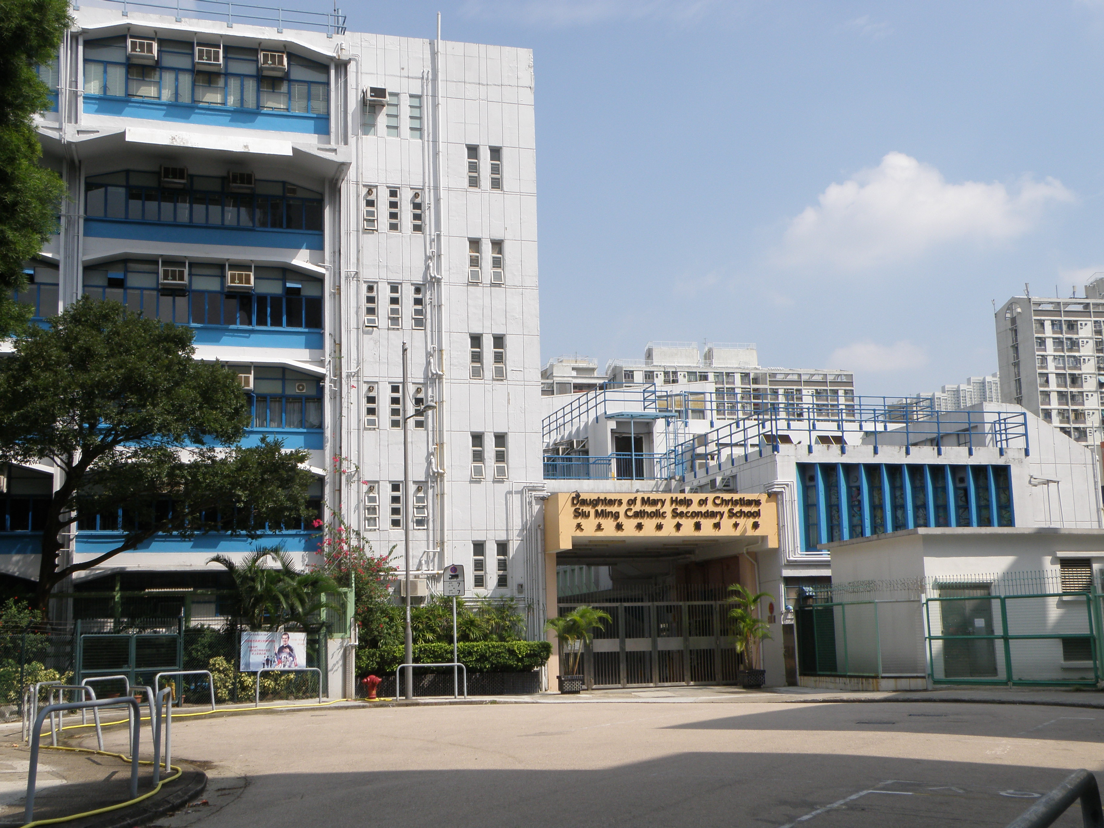 Daughters of Mary Help of Christians Siu Ming Catholic Secondary School, Kwai Chung, Hong Kong.